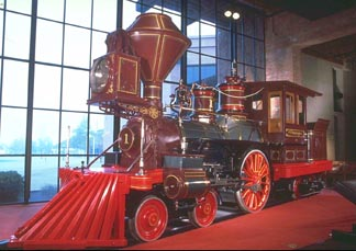 Probably Pionneer locomotive. From